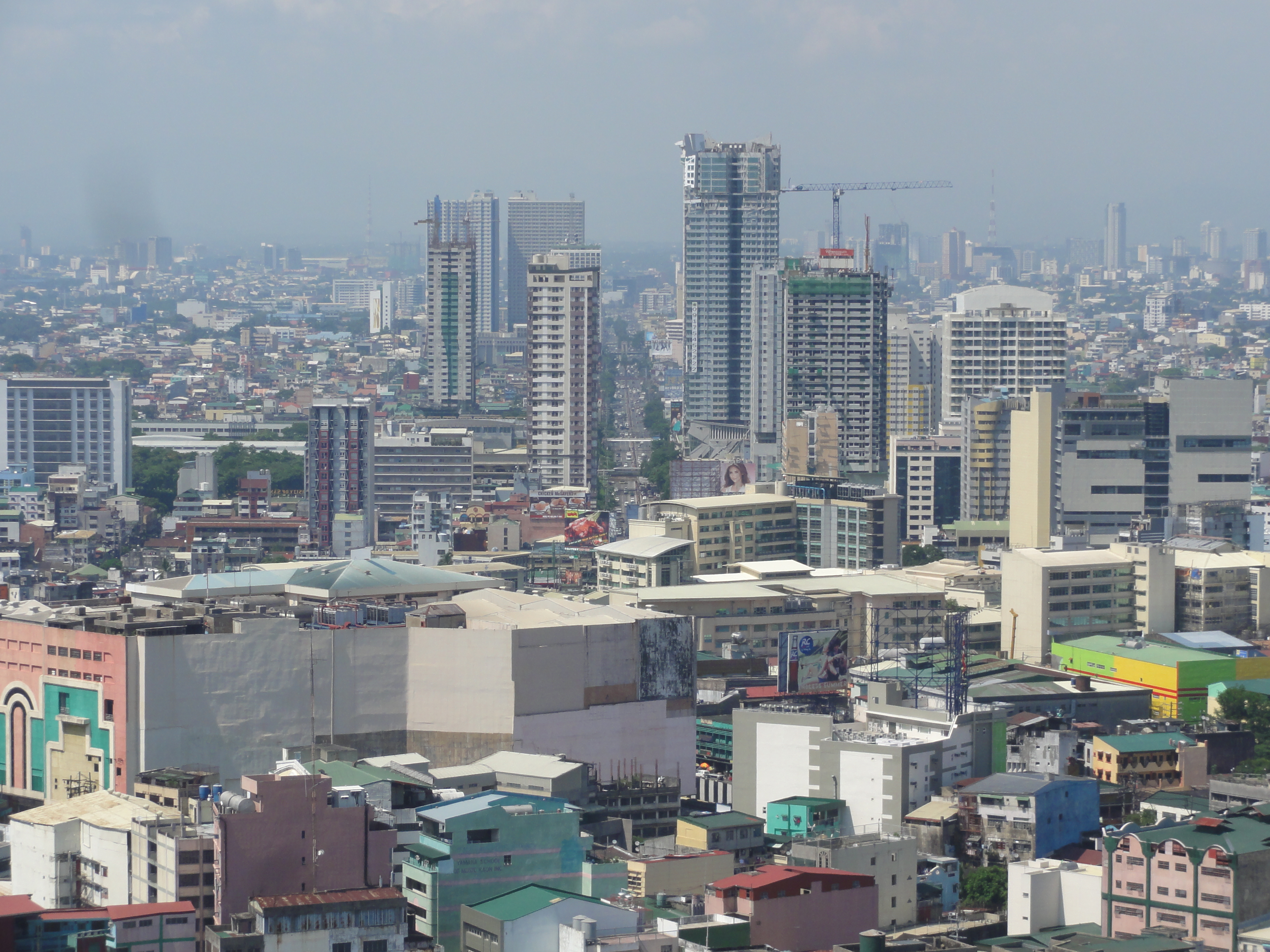 Aerial view of University Belt and Recto area in Sampaloc, Manila as of June 2015.